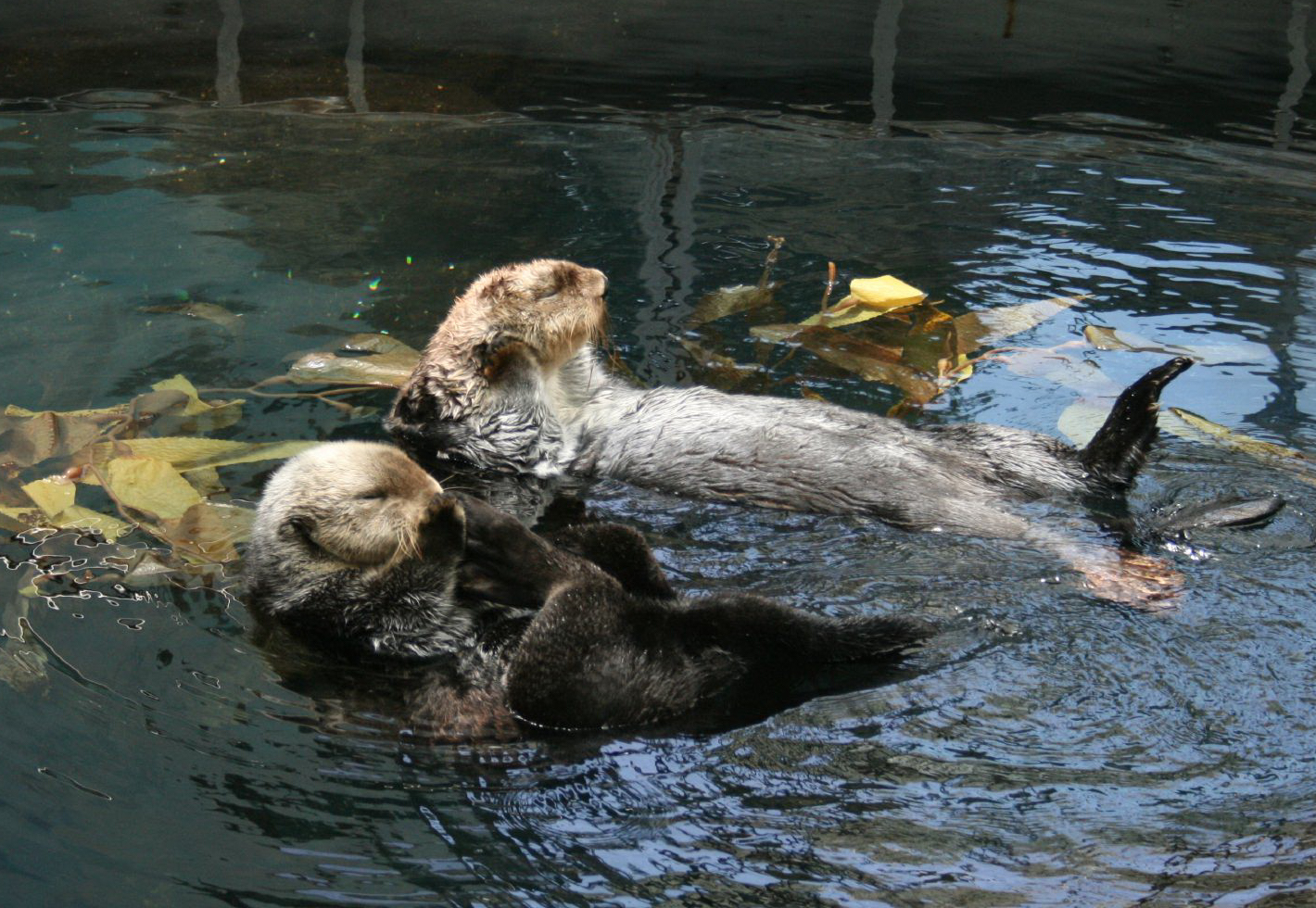 Sea Otters in the magnificnet Lisbon Aquarium. Life is for lazing on your back... with a friend...